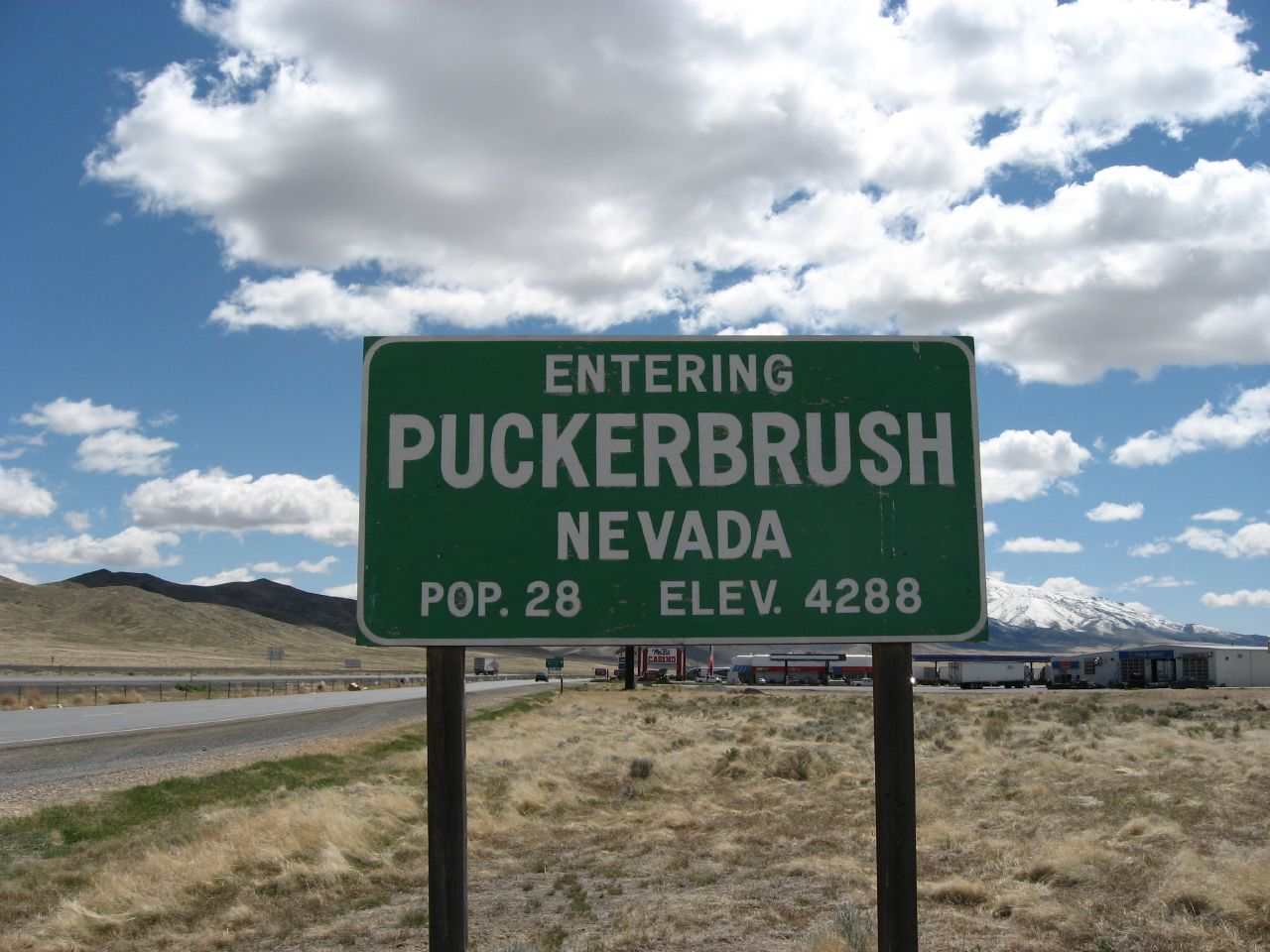 Interstate 80 (I-80) traverses the northern portion of the U.S. state of Nevada. The freeway serves the Reno–Sparks metropolitan area, and also goes through the towns of Fernley, Lovelock, Winnemucca, Battle Mountain, Elko, Wells, and West Wendover on its way through the state.